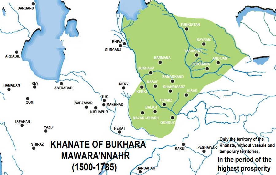 The territory of the Khanate of Bukhara Mawara'nnahr (1500-1785) in the period of the highest prosperity, without temporary territories and vassal states.